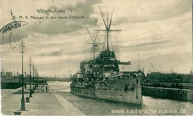 German battleship SMS Nassau in the Wilhelmshaven harbor